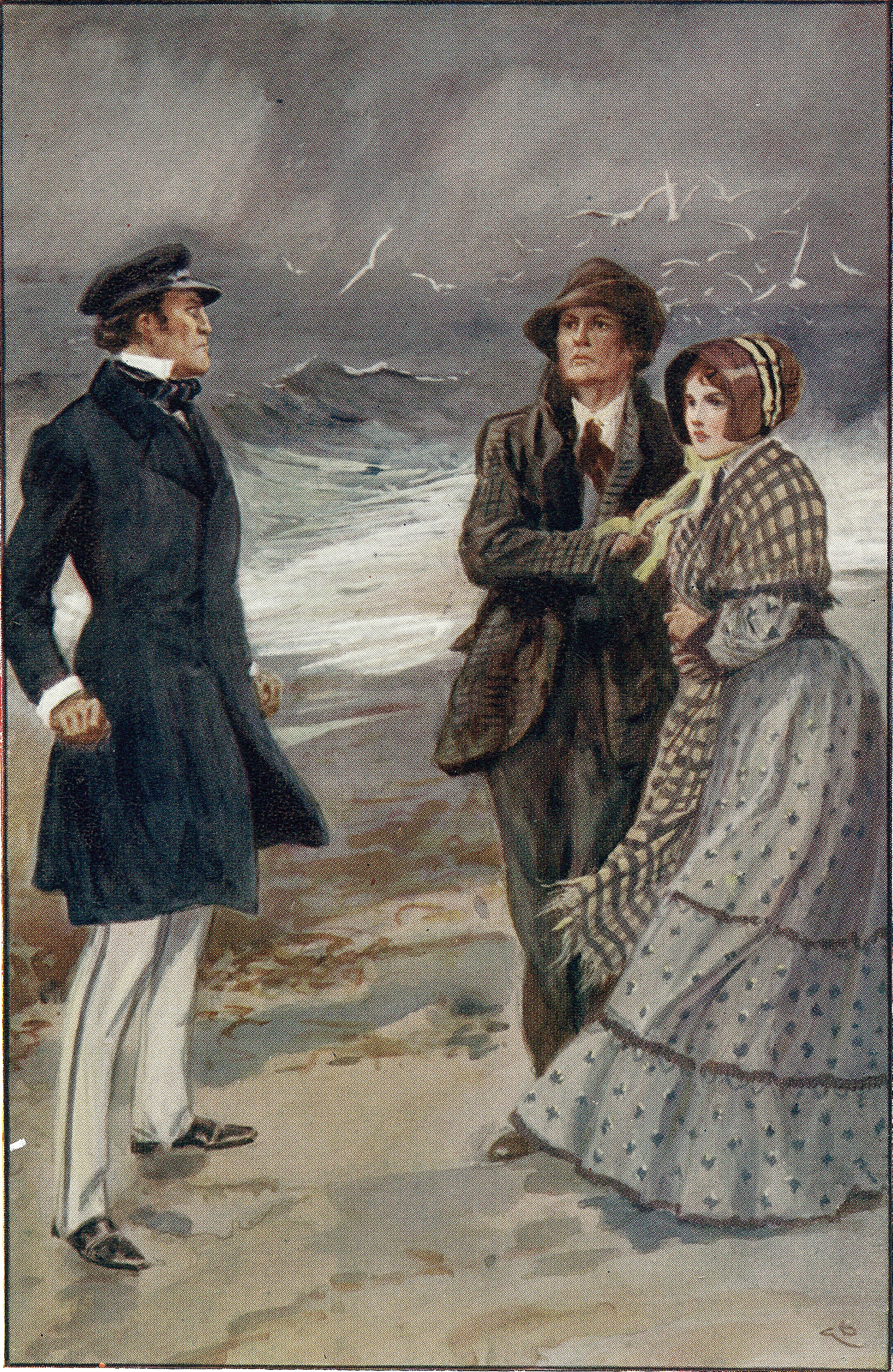 Frontispiece